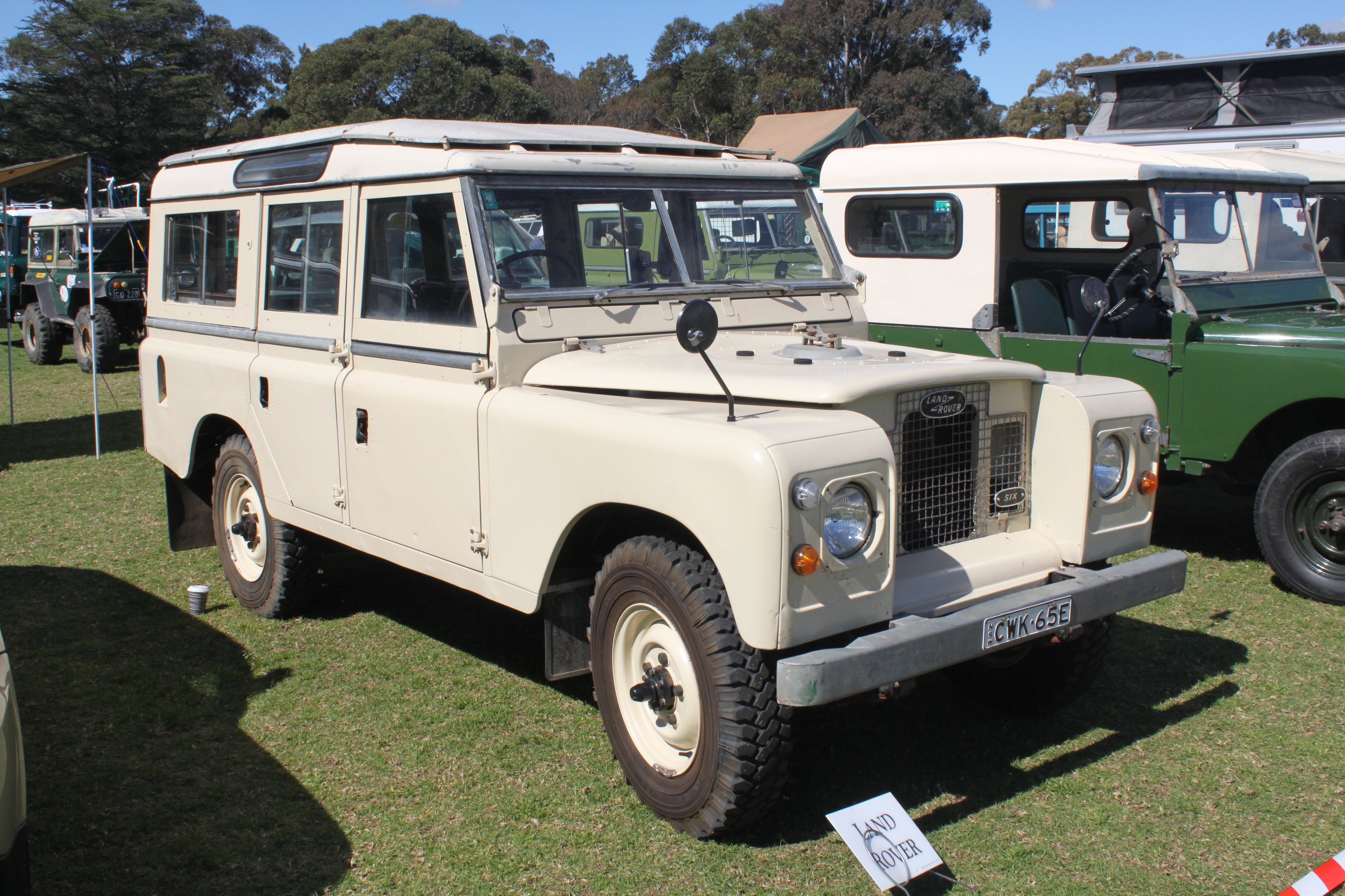 All British Day, Kings School, North Parramatta, NSW August 2015